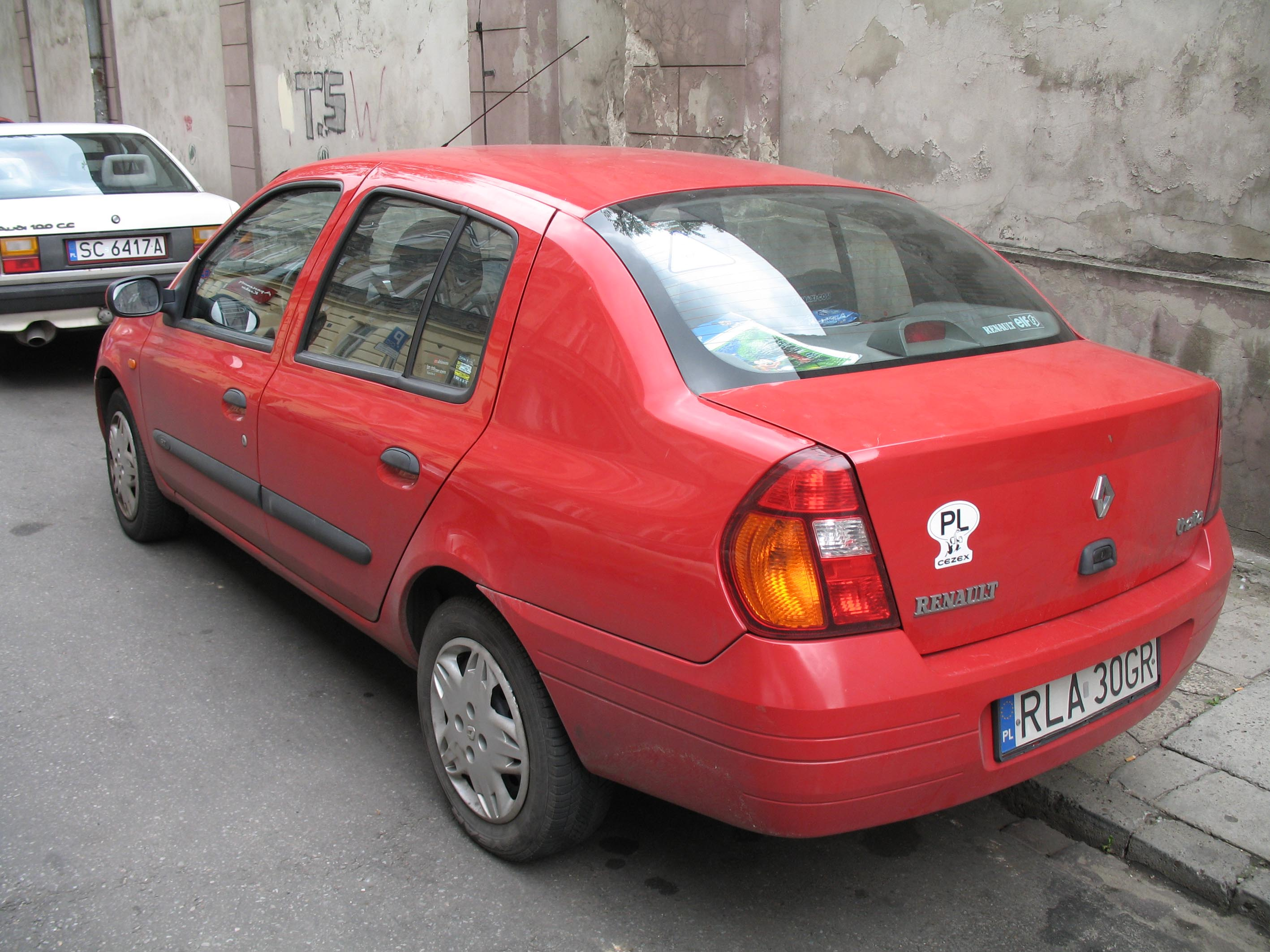 Renault Thalia car in Kraków, Poland.